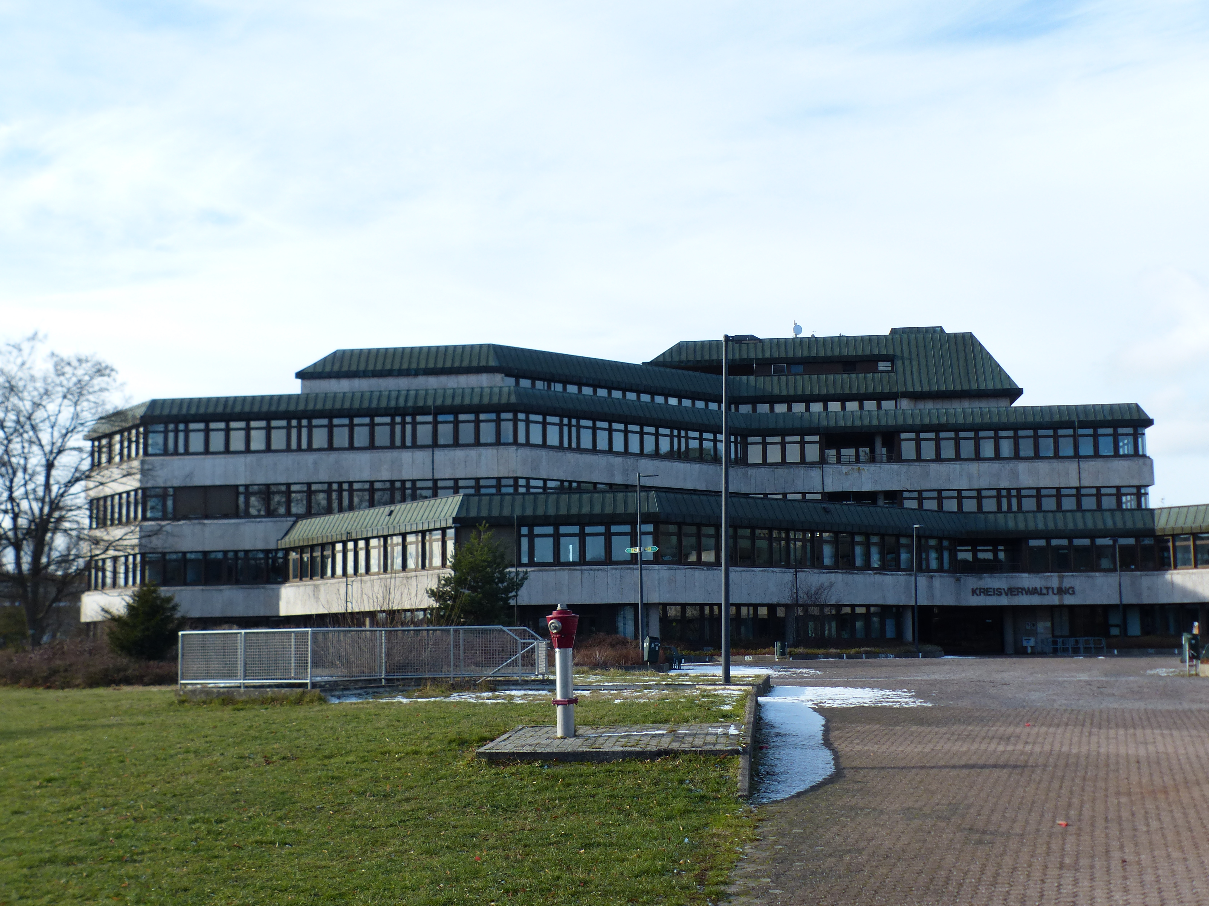 Saarpfalz-Kreis (German rural district) Administration Building in Homburg